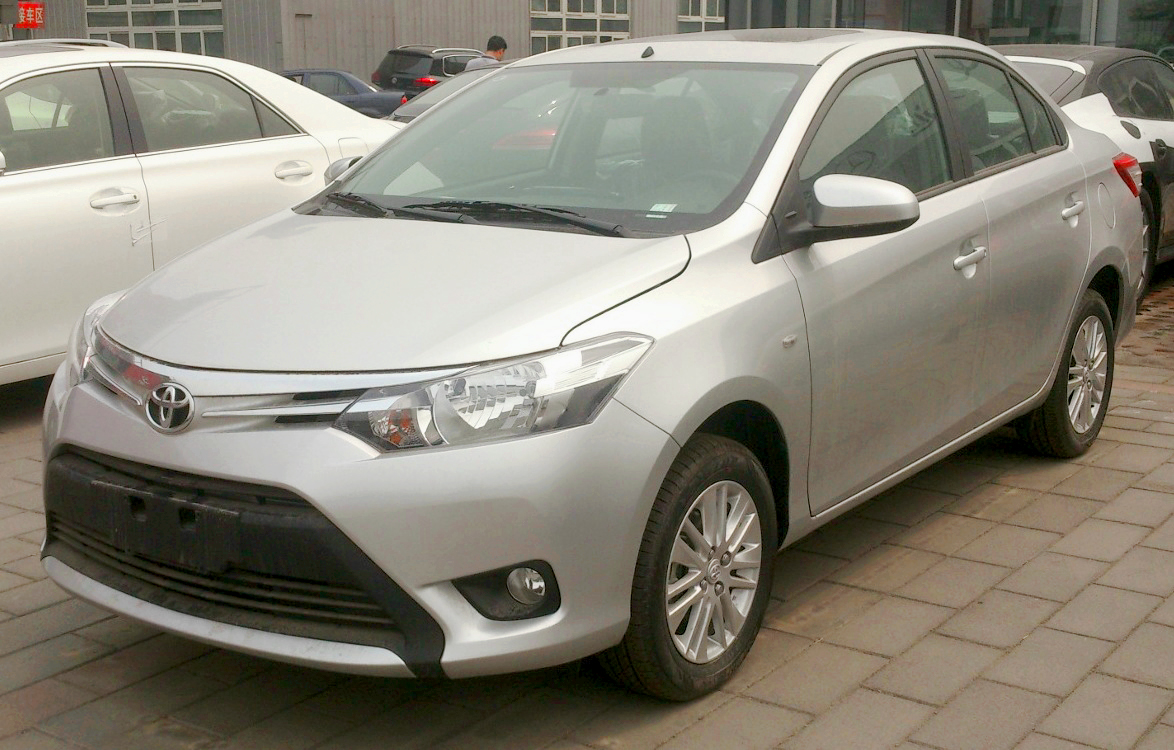 Toyota Vios XP150 photographed in Beijing, China.